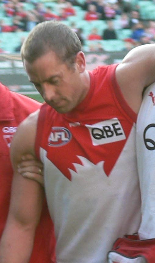 Nic Fosdike being carried off by trainers after being knocked unconscious taking a courageous mark against Melbourne at the MCG in the 2006 AFL Season.